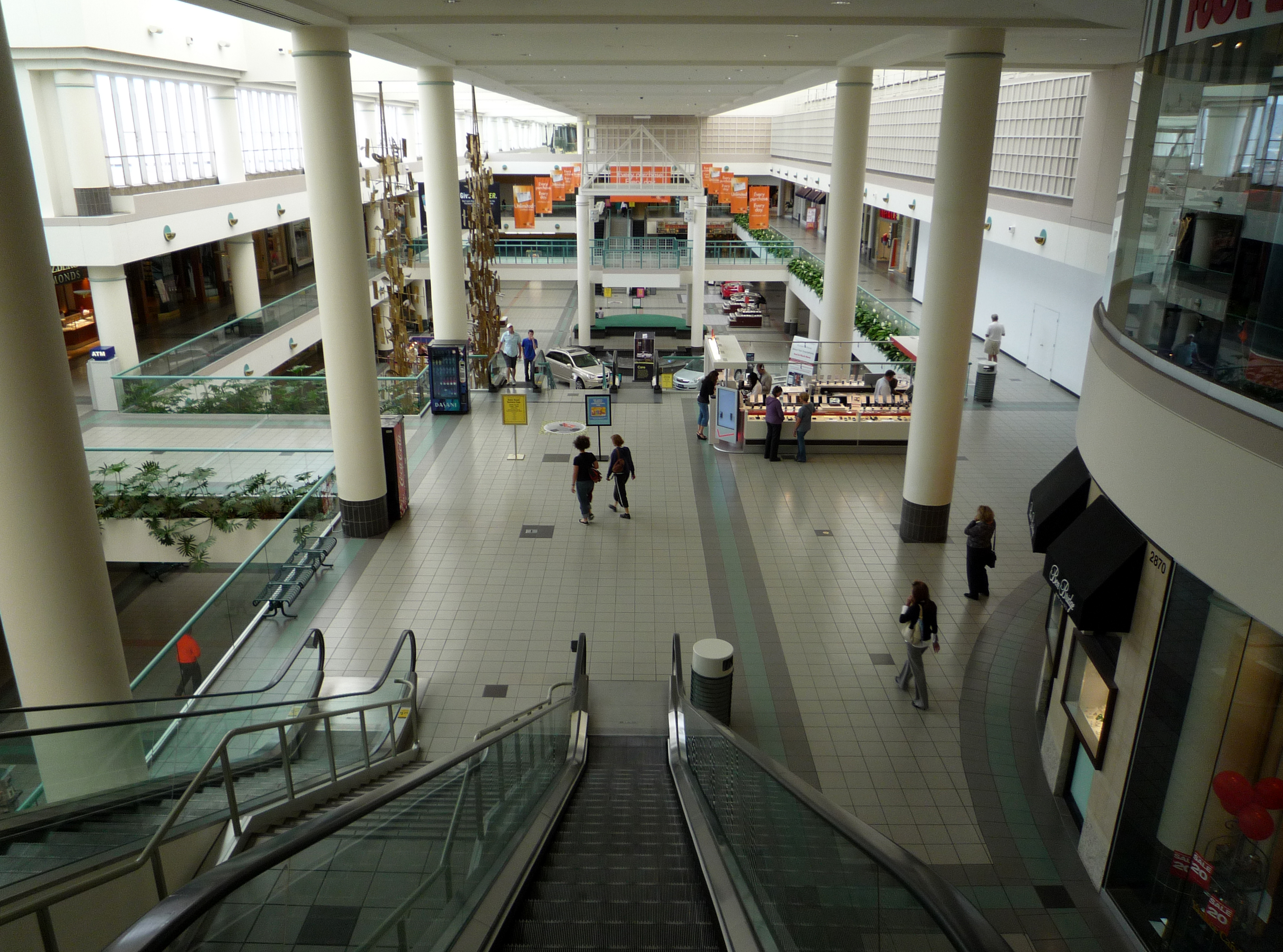 Southdale Center, the first modern mall in the world, Edina, Minnesota, USA.